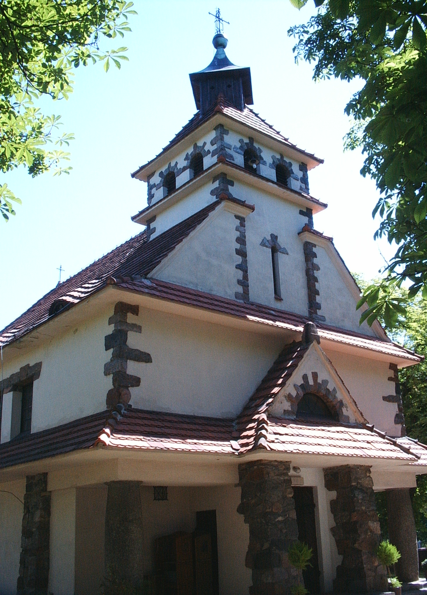 Church in Błędów, Grójec County, Masovian Voivodeship